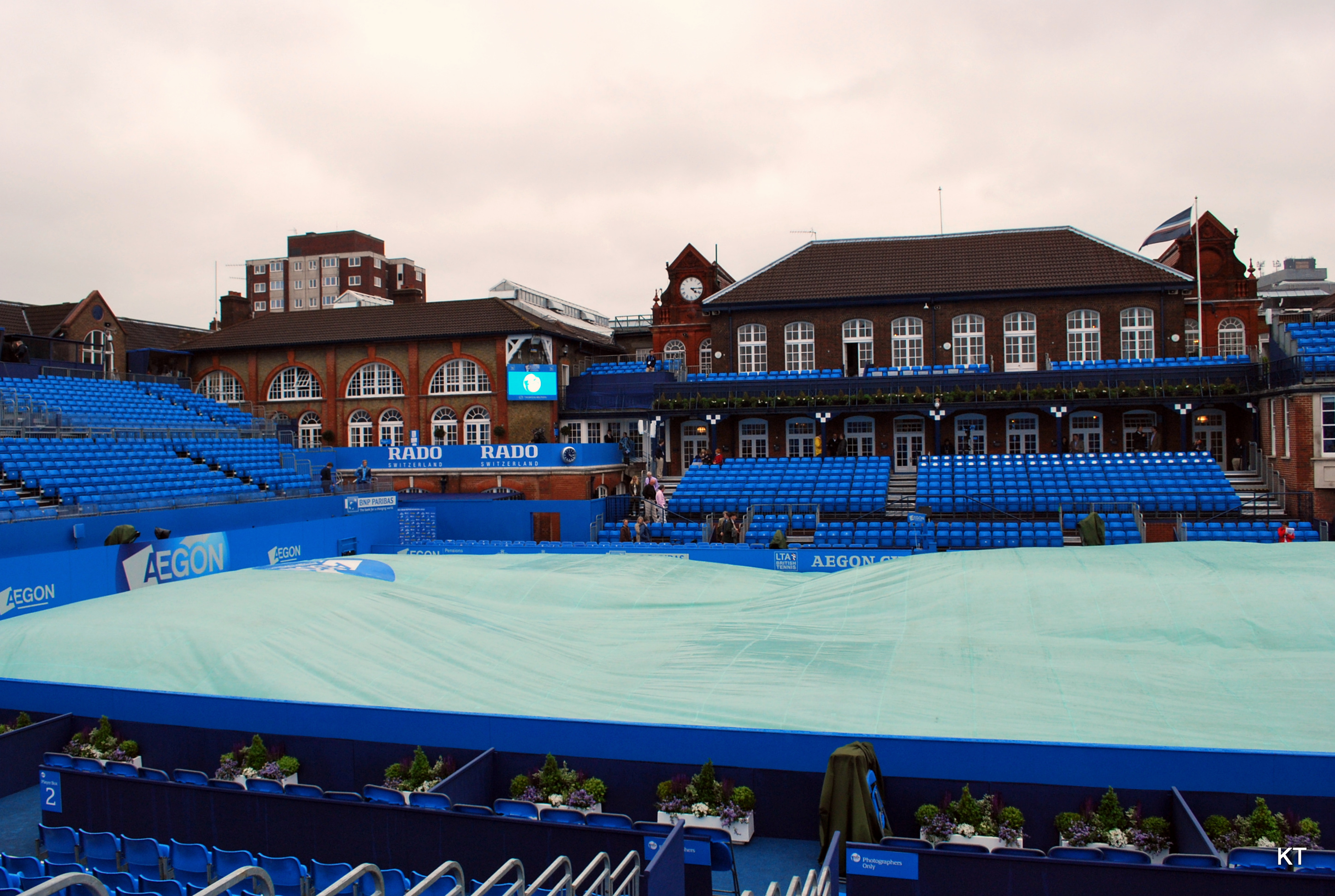 Day 1 of the Aegon Championships, Queen's Club, 2012.